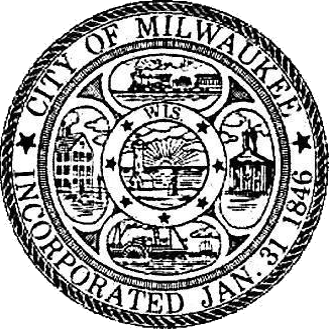 Seal of Milwaukee, Wisconsin (B&W)